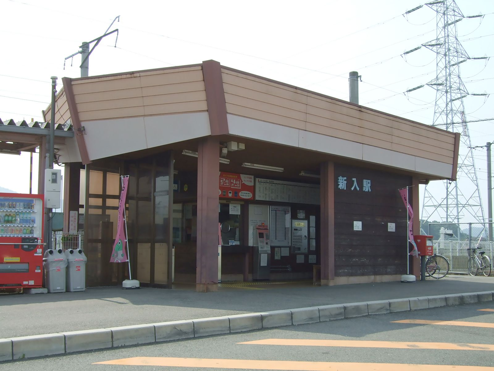 Namazuta Station, Chikuho Main Line, Kyushu Railway Company.